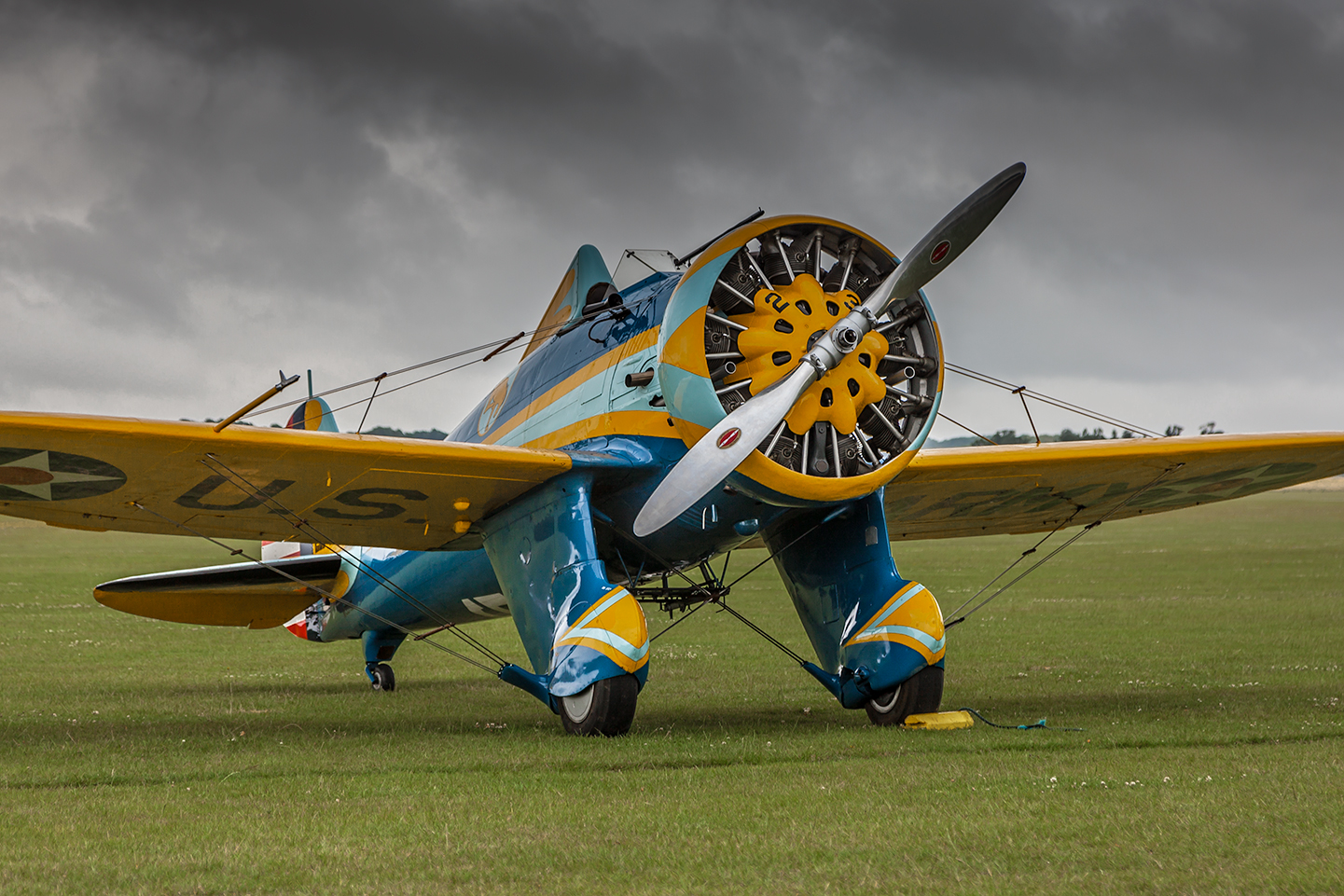 P-26 in markings of the 95th Pursuit Squadron on the flight line 'Flying Legends 2014' at IWM Duxford